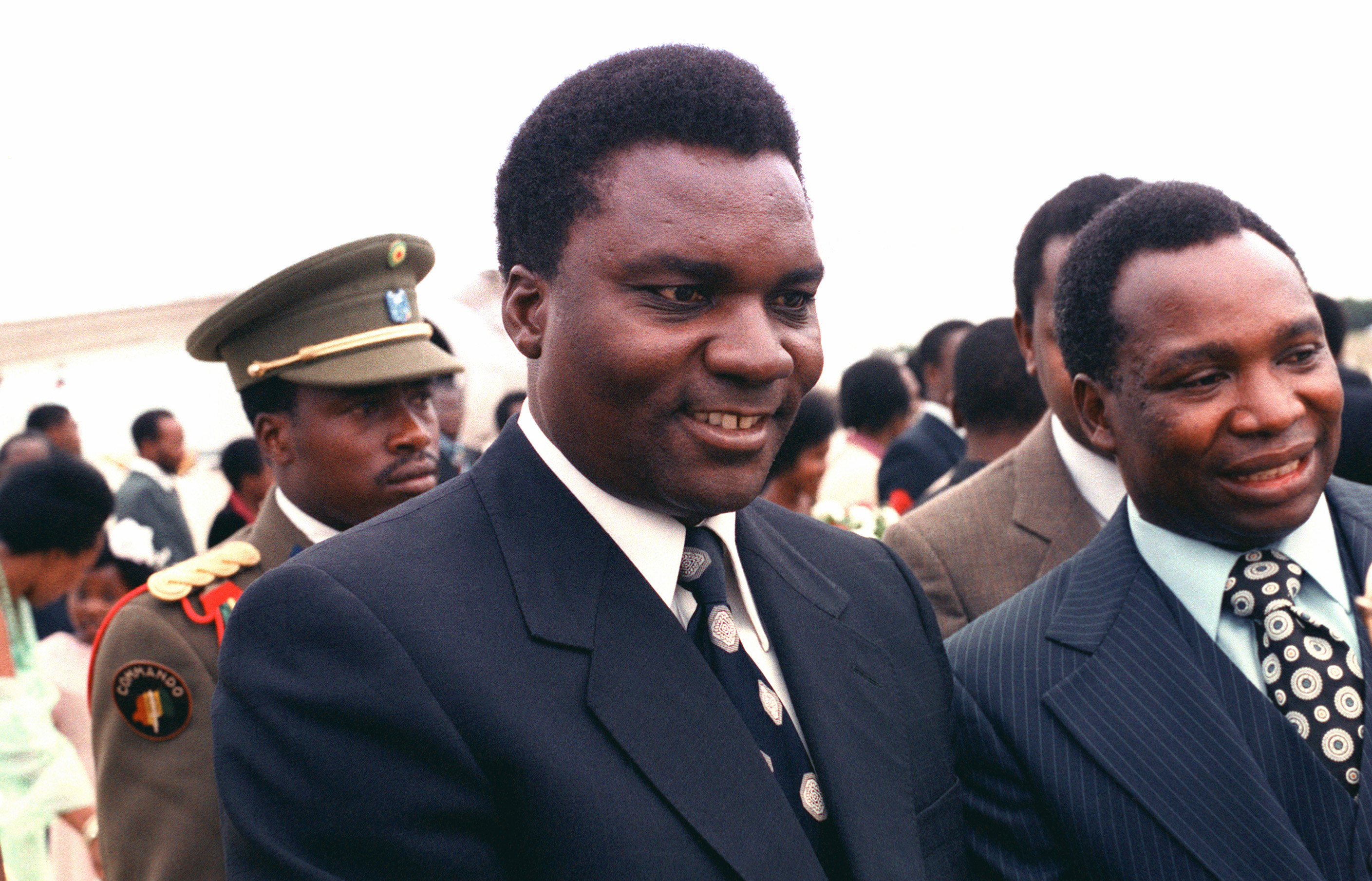 President Juvénal Habyarimana of RWANDA arrives for a visit. Location: ANDREWS AIR FORCE BASE, MARYLAND (MD) UNITED STATES OF AMERICA (USA)